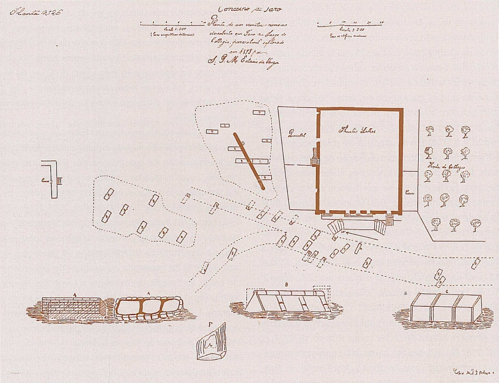 Plant of a ancient roman cemetery near the Lethes Theater, in the city of Faro, in Portugal. This drawing was published on the book Actas do 4.º Encontro de Arqueologia do Algarve - Percursos de Estácio da Veiga.", of 2006.